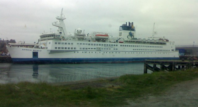 AFRICA MERCY The Africa Mercy docked at Blyth May 2007